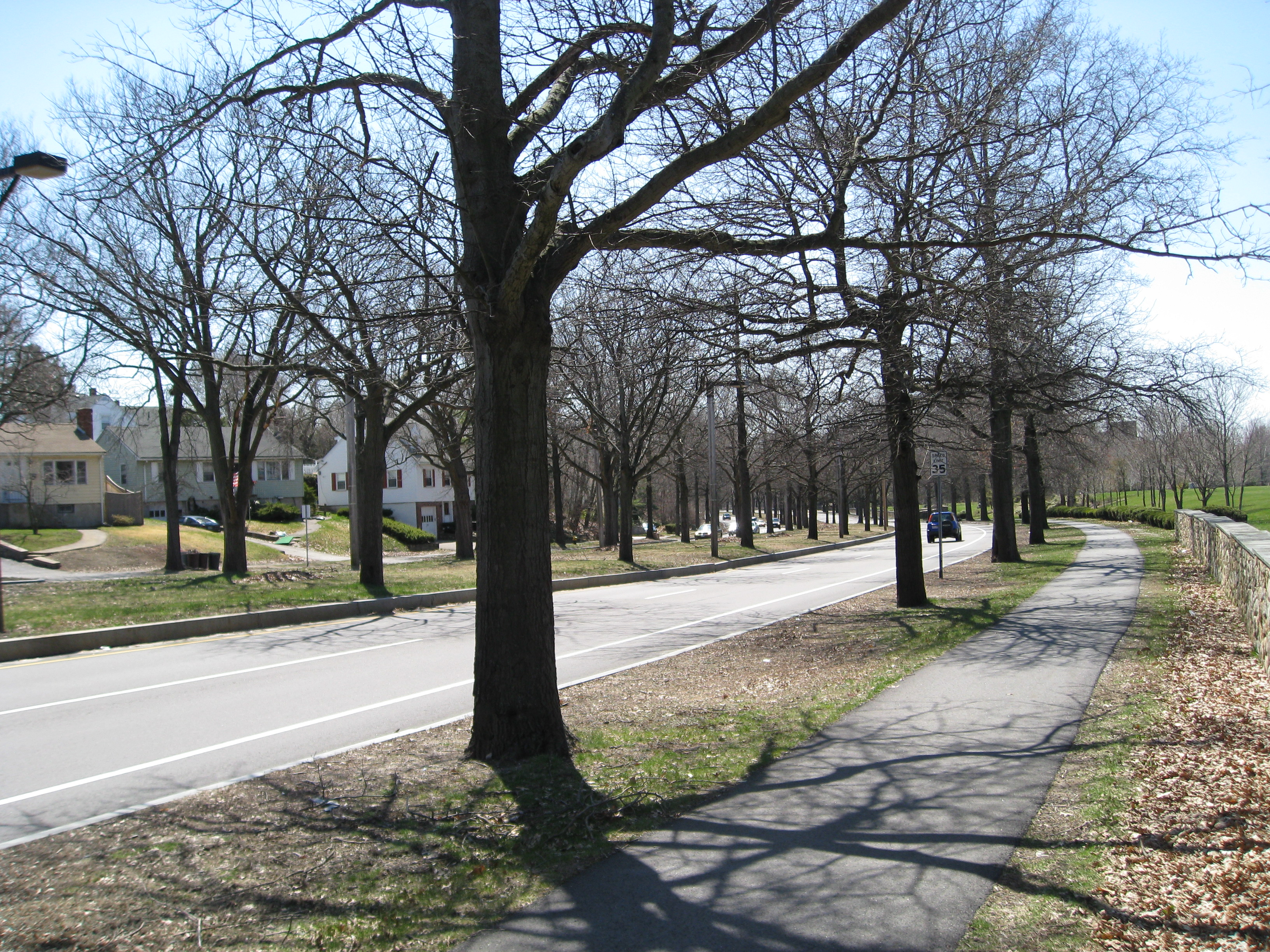 VFW Parkway